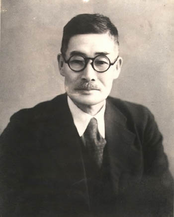 Jo Miura (三浦 襄) is a Japanese business person, 1888-1945.